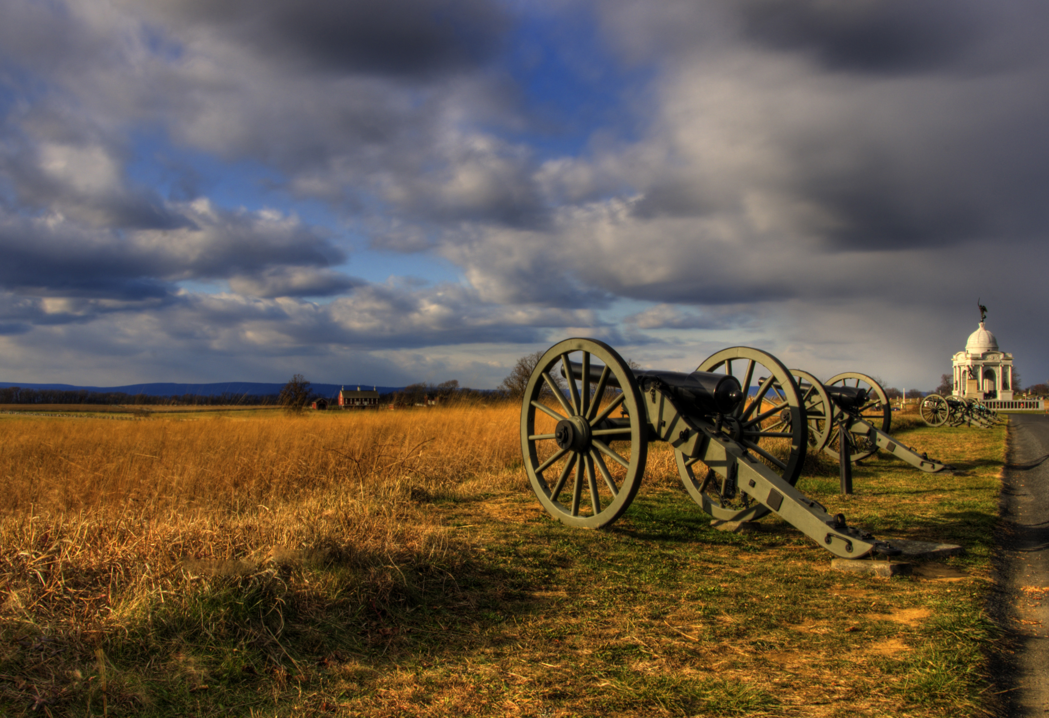 Gettysburg National Military Park, Gettysburg National Military Park, near Gettysburg Cumberland, Highland, and Straban Townships. The two foreground cannons are 10-pounder Parrott rifles.